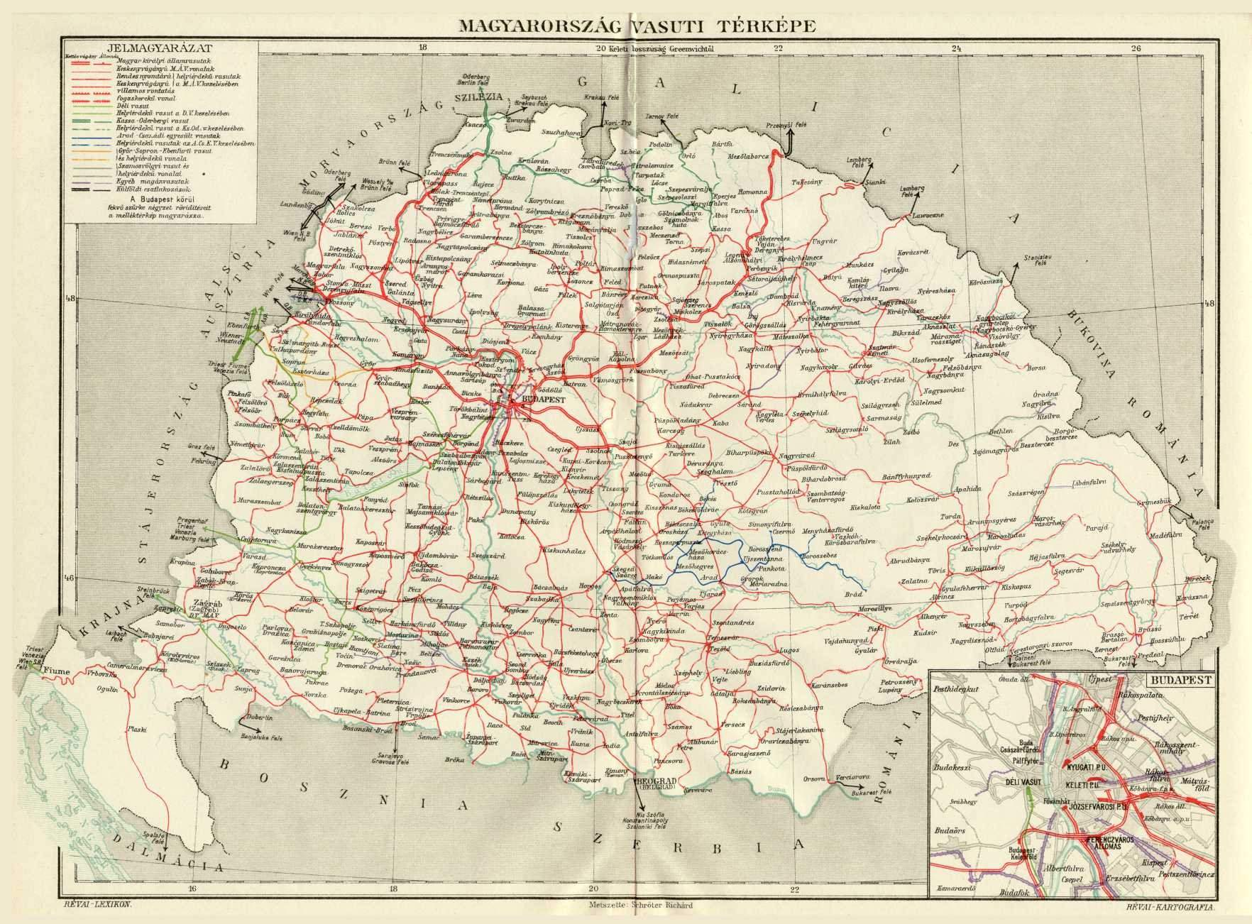 railroads in Kingdom of Croatia-Slavonia and Kingdom of Hungary, cca. 1900. Red lines represents the Hungarian State Railways, blue, green and yellow lines were owned by private companies in Hungary